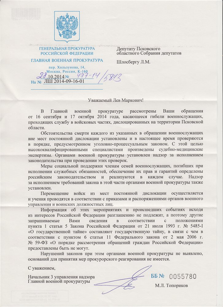 The official response of the Chief Military Prosecutor's Office of Russia, which confirmed the death of Pskov paratroopers. The circumstances of the death are designated as "state secret" and could not be disclosed "because of the interests of Russia". An article in Vedomosti with the link to the document, An article in Dozd with the link to the document. November 2014. On 18 August Russian minister of defence Sergey Shoigu awarded Suvorov medal to Pskov Paratroopers Division. At that time Russian media highlighted that the medal is awarded exclusively for combat operations and reported that a large number of soldiers from this division died in Ukraine just days before, but their burials were kept in secret12.